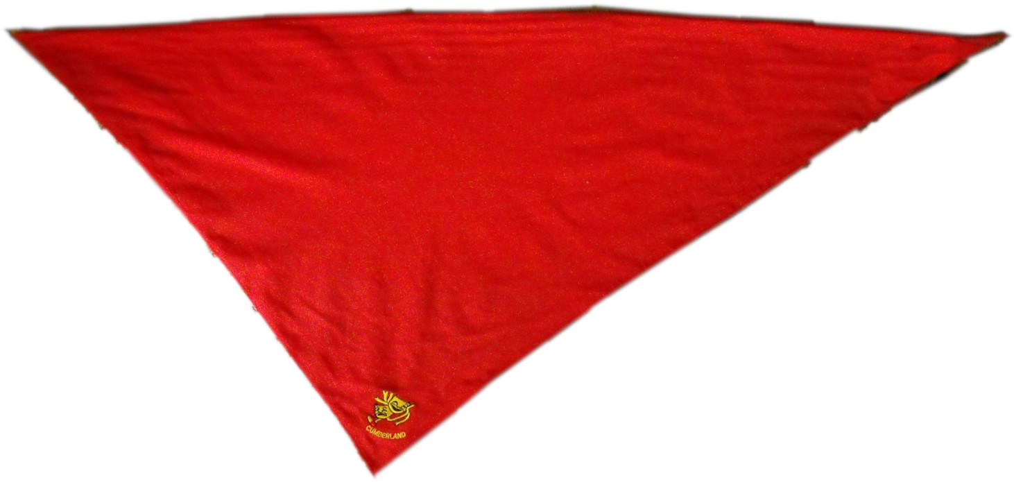 Cumberland Gang Show, New South Wales neckerchief